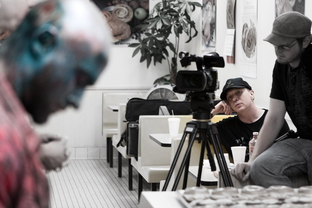 Bruce and Francois in LaZombie by Arno Roca